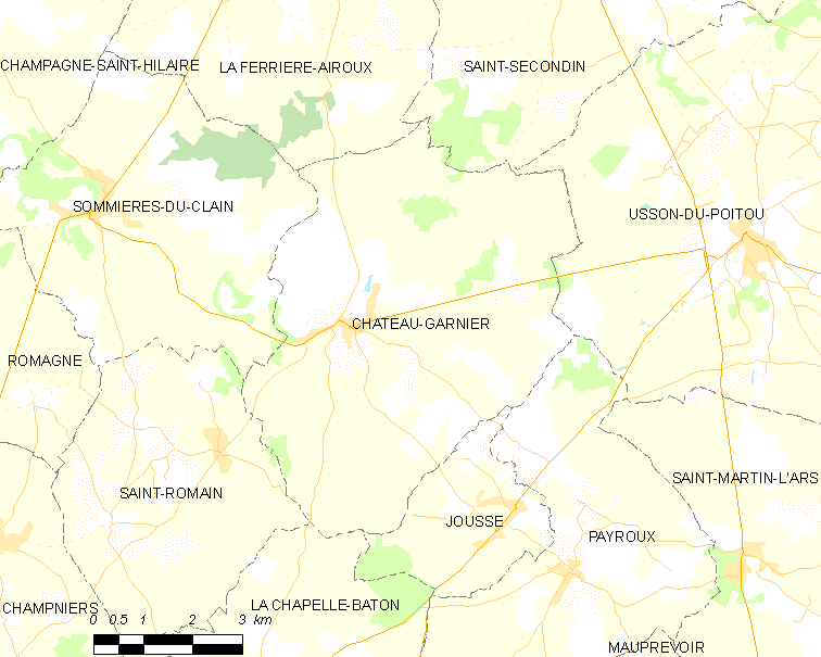 Map of French municipality Château-Garnier